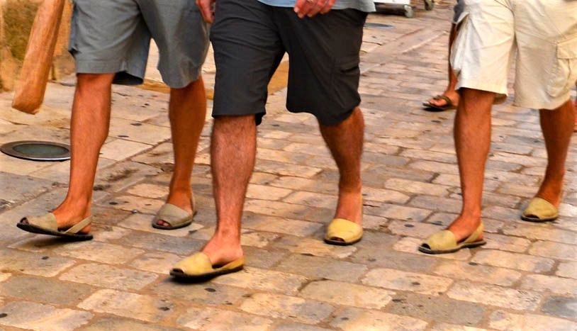 Avarcas pour homme